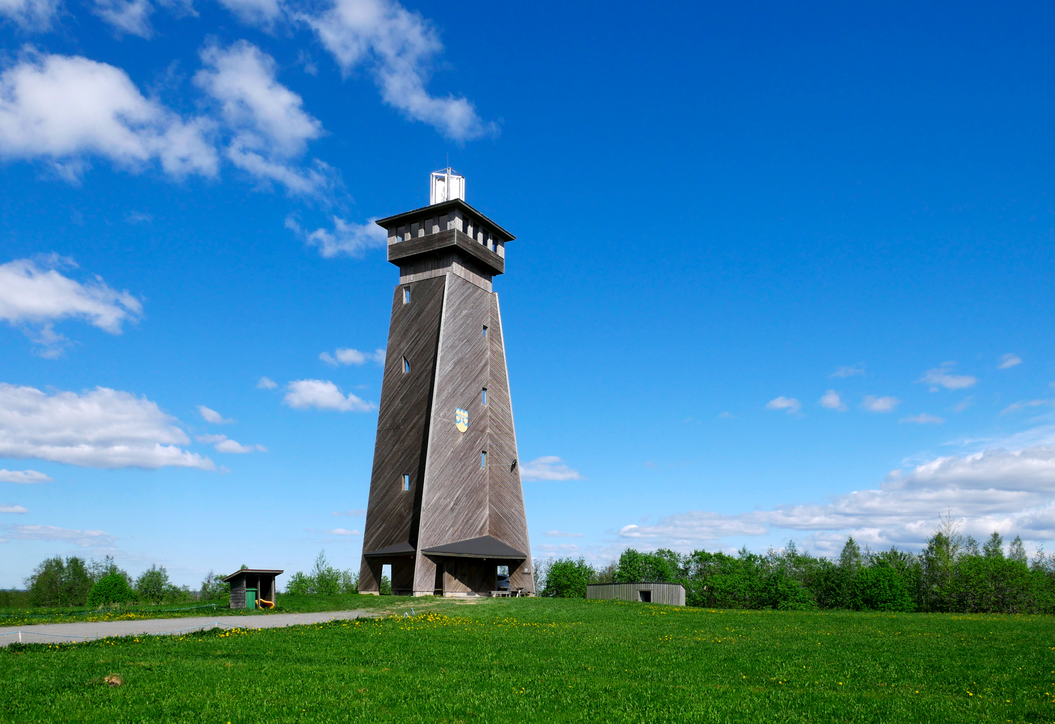 Suokonmäki observation tower. Lehtimäki.